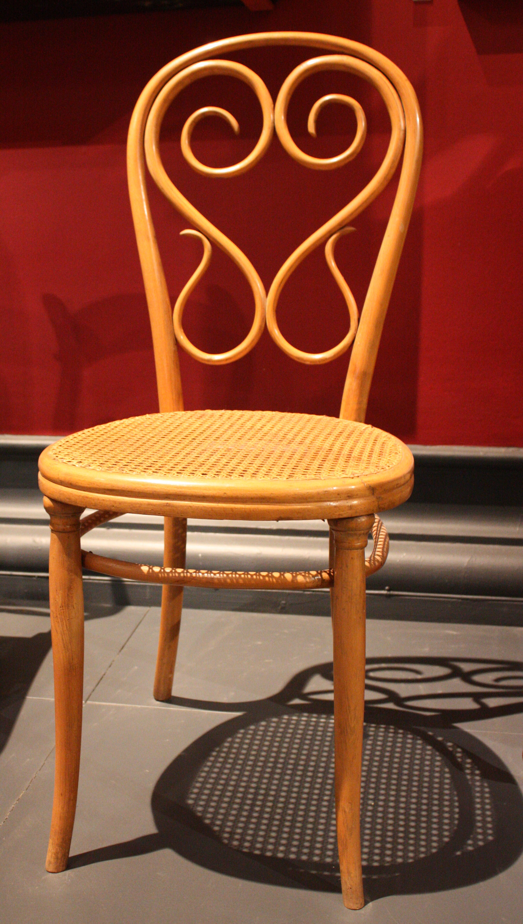 Bentwood Chair about 1866 In 1857 Thonet received a commission to design and make chairs for Cafe Daum, a popular coffee shop in Vienna. This strong lightweight chair, "Number 4" became tremendously successful and sold very widely. It used solid wood for the frame, bent using steam and moulds. This example was made almost ten years after the original commission. Austria; Vienna; designed by Michel Thonet; manufactured by Gebruder Thonet. Beech, steam-bent, with cane seat Collection ID: W.6-1969 This photo was taken as part of Britain Loves Wikipedia in February 2010 by Valerie McGlinchey.